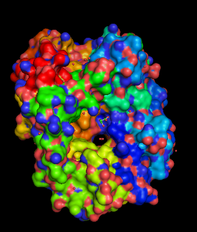 Space filling model of lysophosphatidic acid phosphatase showing the filled solvent channel leading to the active site.